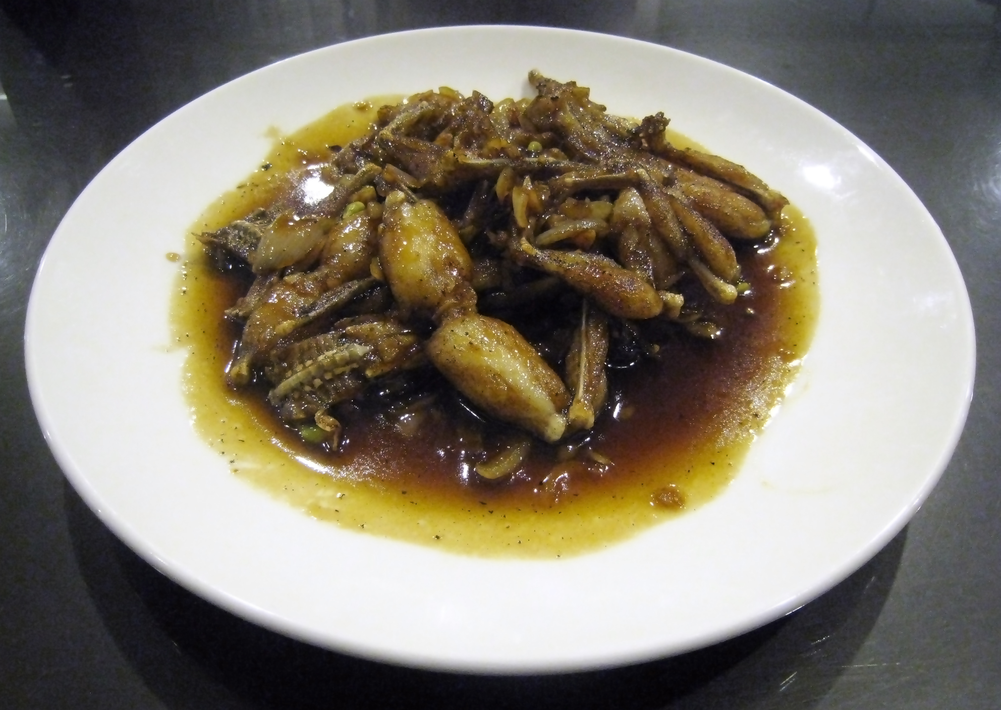 Fried frog legs in butter margarine sauce, Chinese Indonesian cuisine, Jakarta, Indonesia.